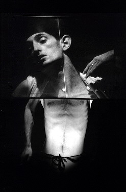 "FROM NOW ON" co-produced by Festival Danças na Cidade, Lisbon. This work established in Paulo Henrique's works a step into installation, and the body as an installation site. FROM NOW ON - the actual incisive meaning of the words/title (a popular common/general social phrase "from now on"), coding visions and meanings of transformation/change/separation/division/segmentation/analyses, alongside with the phrase projected in the beginning of the performance installation: "There's no Seduction here, No objects of Desire". Finishing with the blood's performer projected after being taken live in the performance space and then becoming the visual enveloping of the body. .Link to full record about this work at, DIGITAL PERFORMANCE ARCHIVE